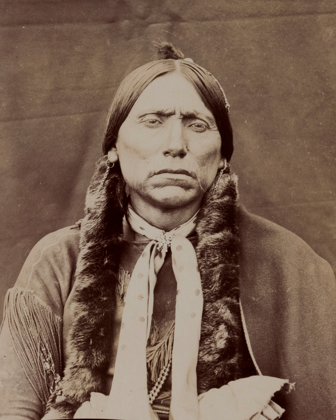 Albumen portrait photo of Quahah Parker